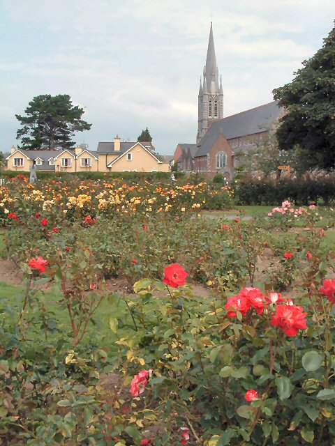 Roses of Tralee. St John's Church overlooks the roses in Tralee's Town Park